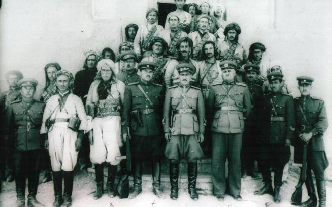 Mustafa Barzani (Kurdish: مستەفا بارزانی Mistefa Barzanî) (March 14, 1903 – March 1, 1979) also known as Mullah Mustafa was a Kurdish nationalist leader, and the most prominent political figure in modern Kurdish politics.